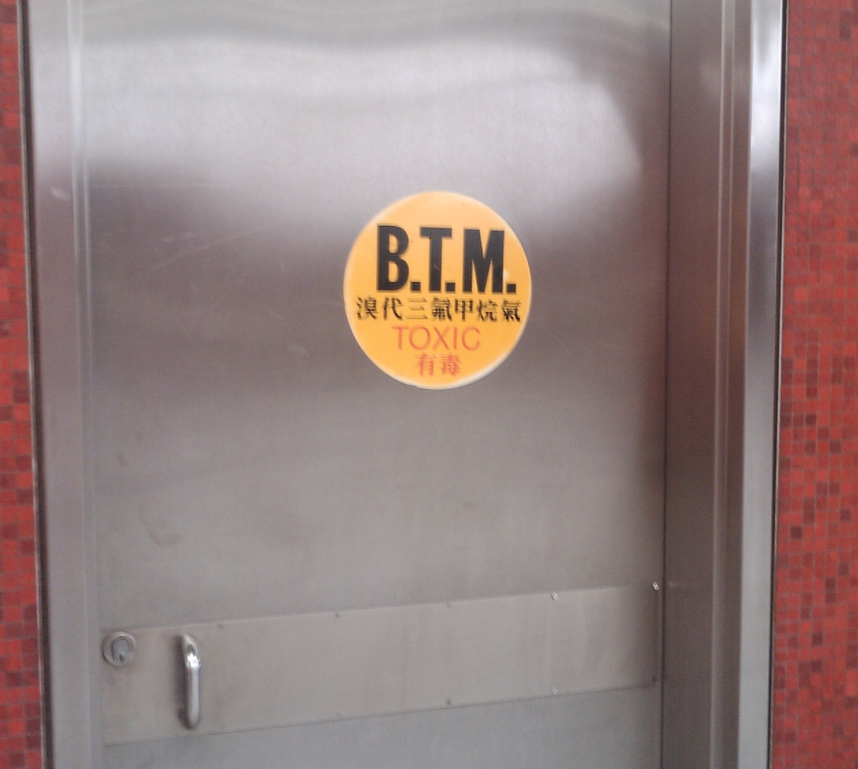 Warning sign of bromotrifluoromethane (BTM) at HK MTR station